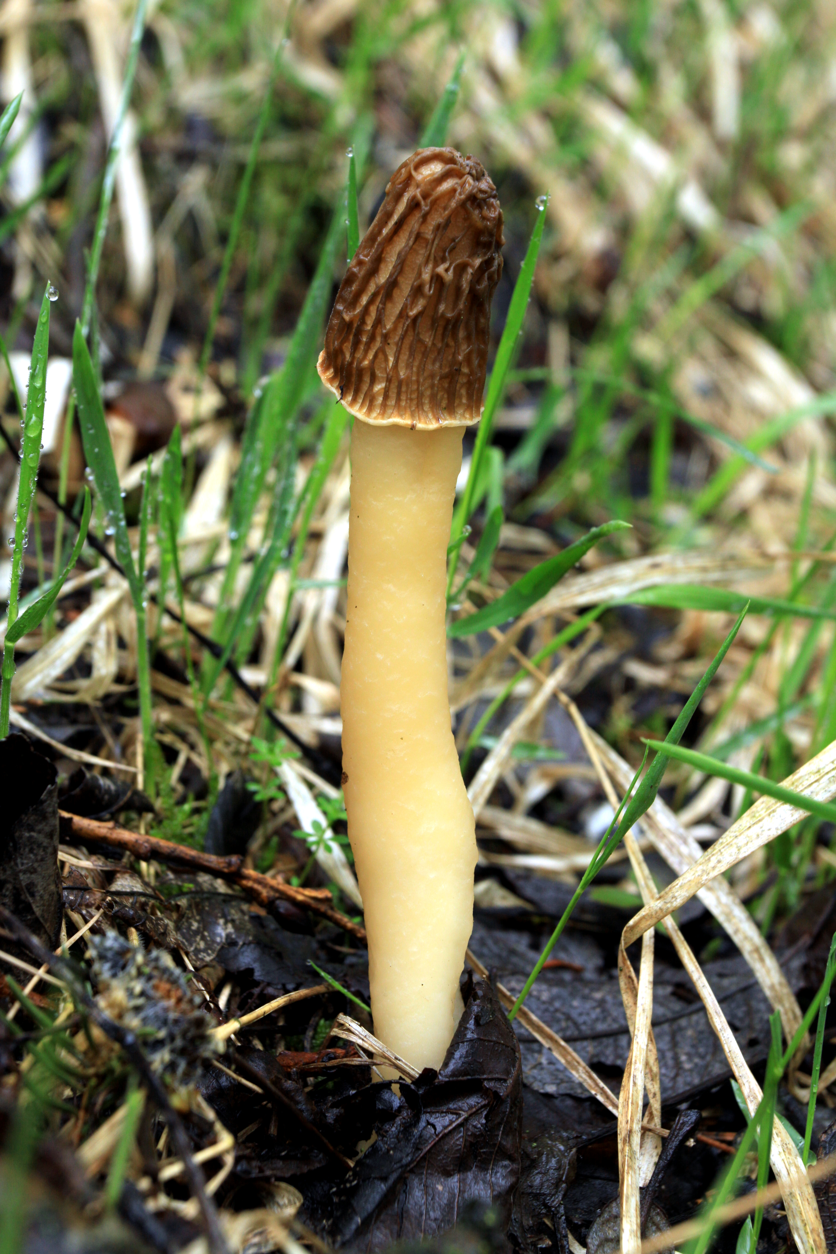 Verpa bohemica in natural monument Štola Jarnice in spring 2013 near Týnčany village, Příbram District, Czech Republic